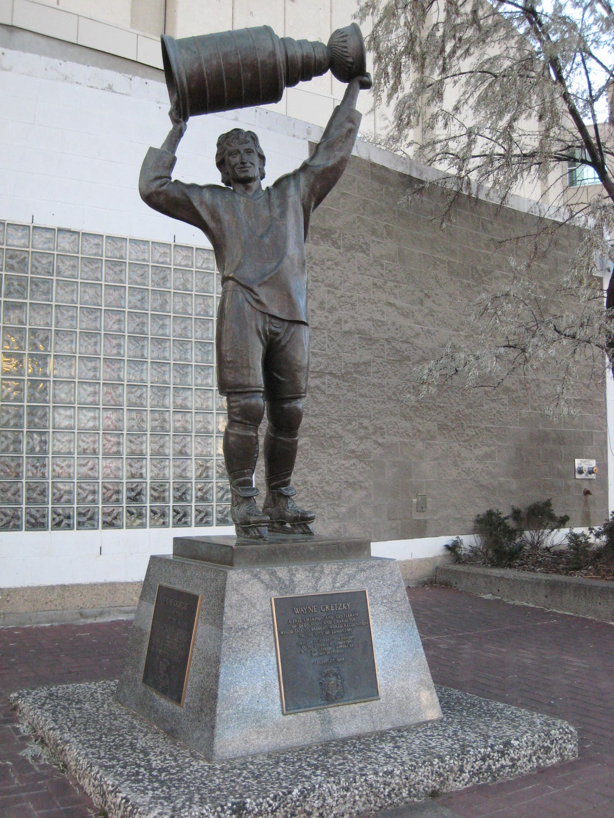 The Wayne Gretzky statue located in Edmonton, Canada. The monument was sculpted by John Weaver in 1989.